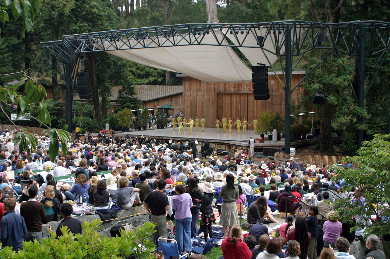 Stern Grove, San Francisco.